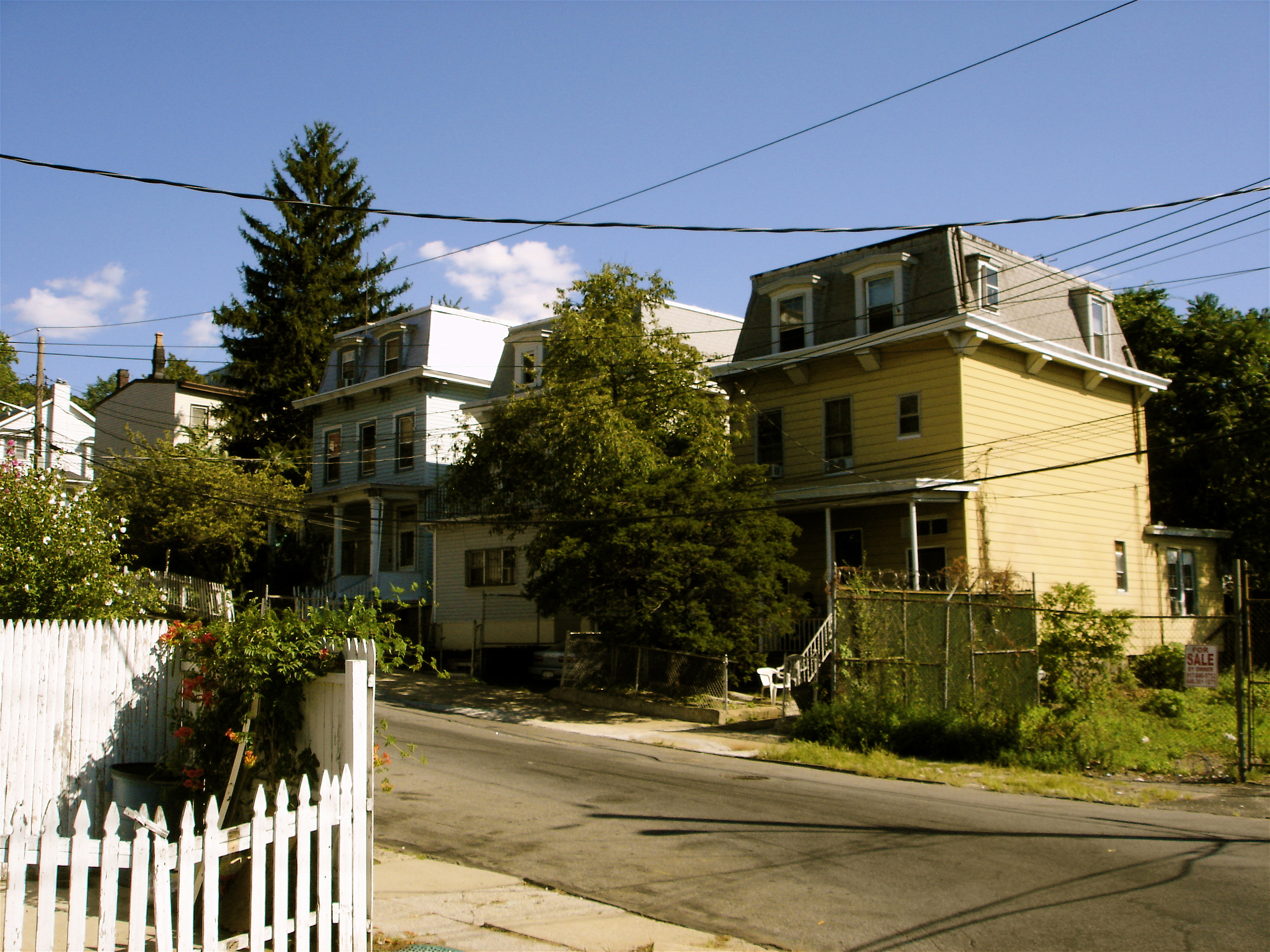 Houses in Yonkers, New York.